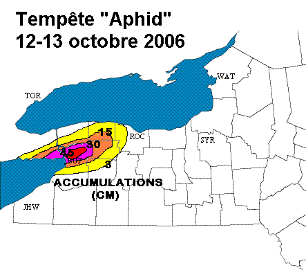 Accumulation amounts of snow, in cm, left by an early lake effect snow storm in the Buffalo (NY) region on October 12-13 2006. One of the worst in American record.Accumulations de neige laissées par la tempête de neige de type bourrasque de neige côtière "Aphid" du 12 au 13 octobre 2006 dans la région de Buffalo,NY.